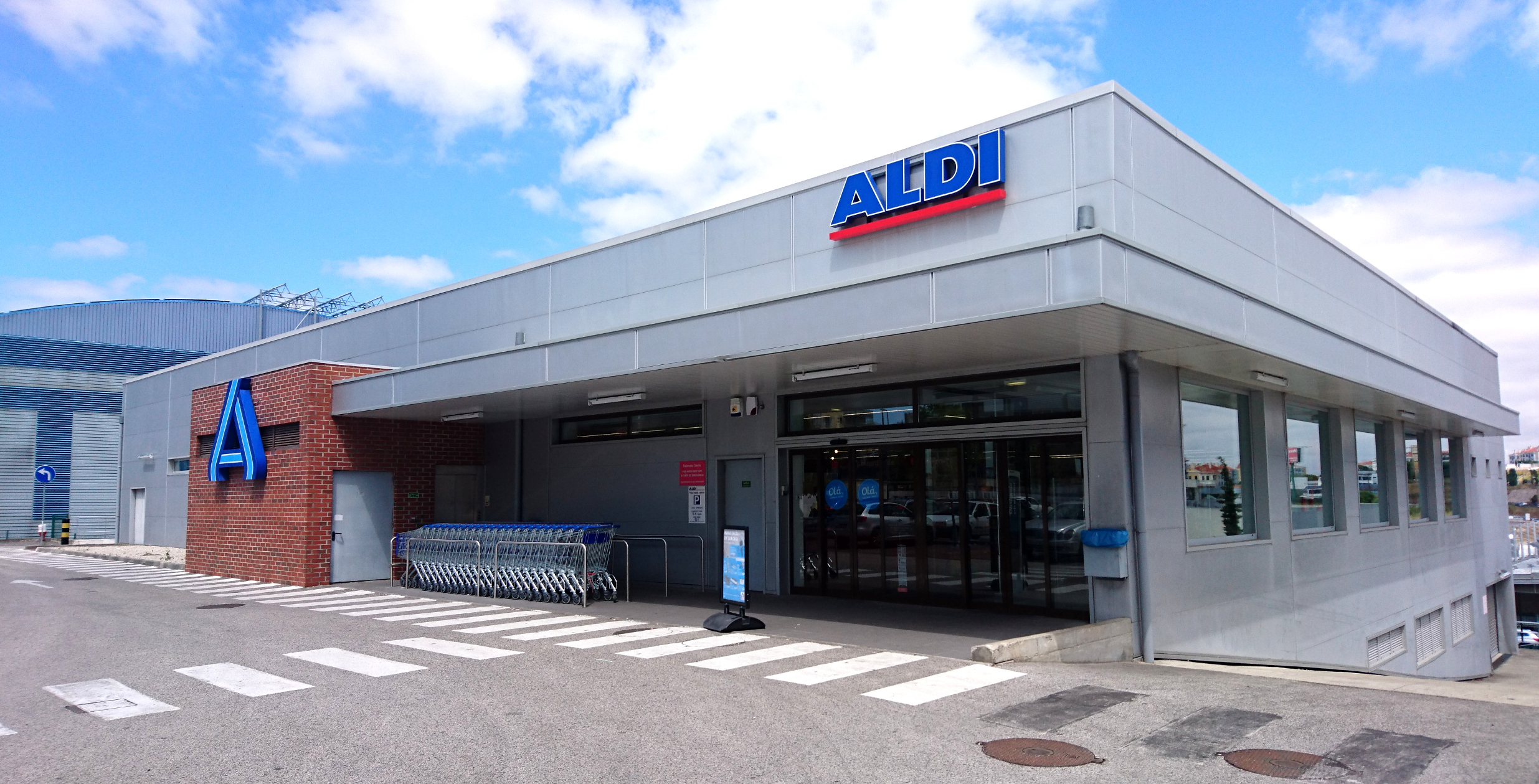 Aldi store in Alfragide, Amadora, Portugal. Opened in 2010.